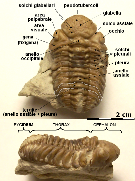 Kainops invius (Campbell) - Early Devonian. From Clarita, Coal County, Oklahoma (USA). Morphological terminology (text in Italian).